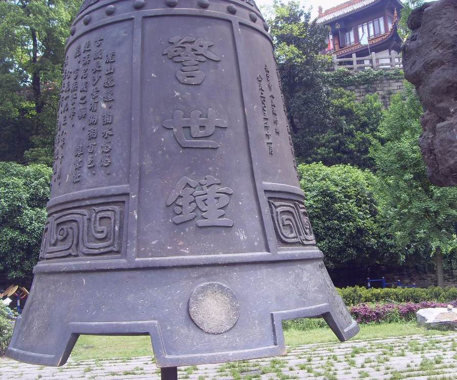 The alarming bell of the 1938 Changsha Fire.